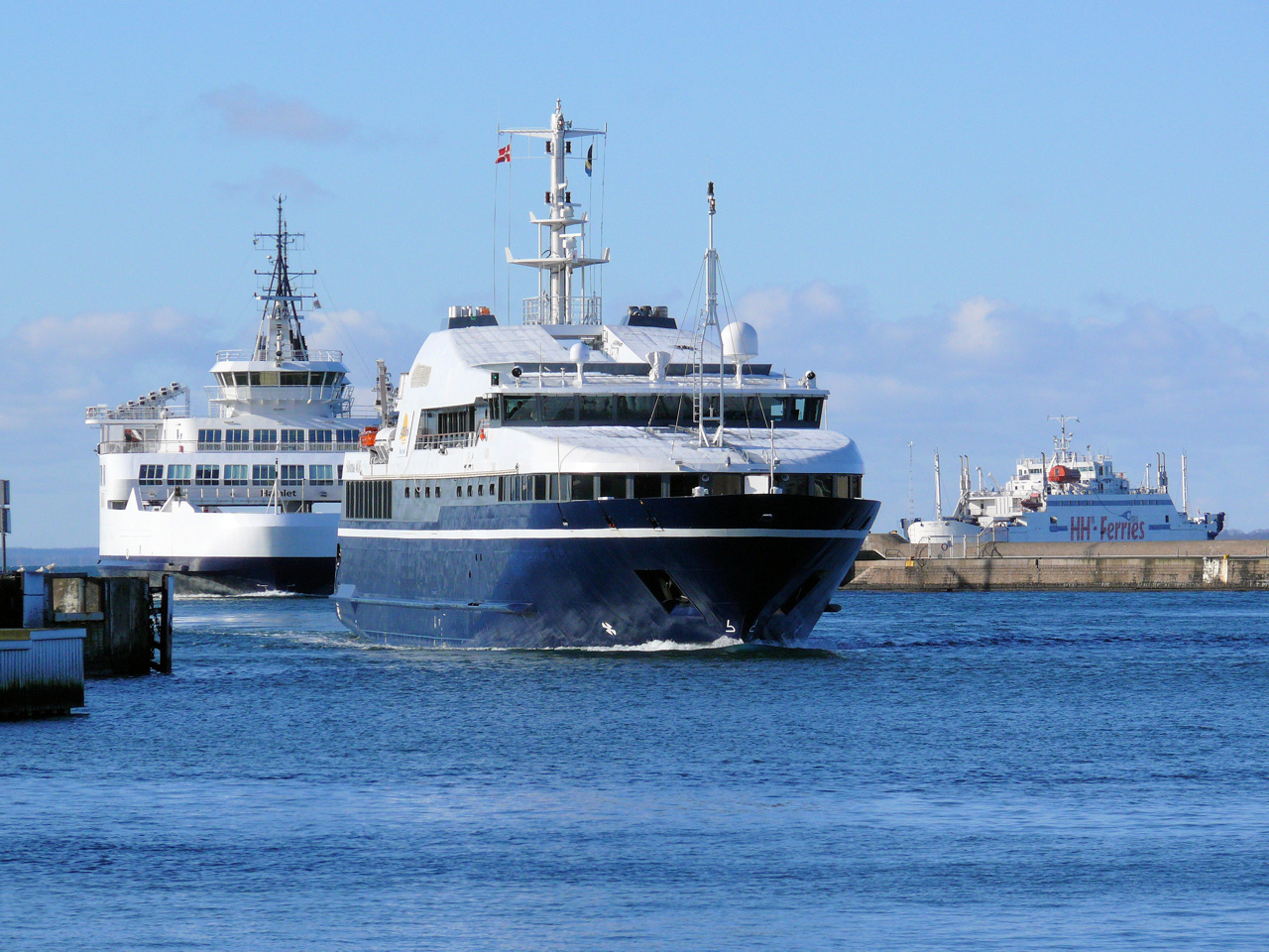 Ferries belonging to Scandlines, Ace Link and HH-ferries. (from the left) This picture was taken in Helsingborg.